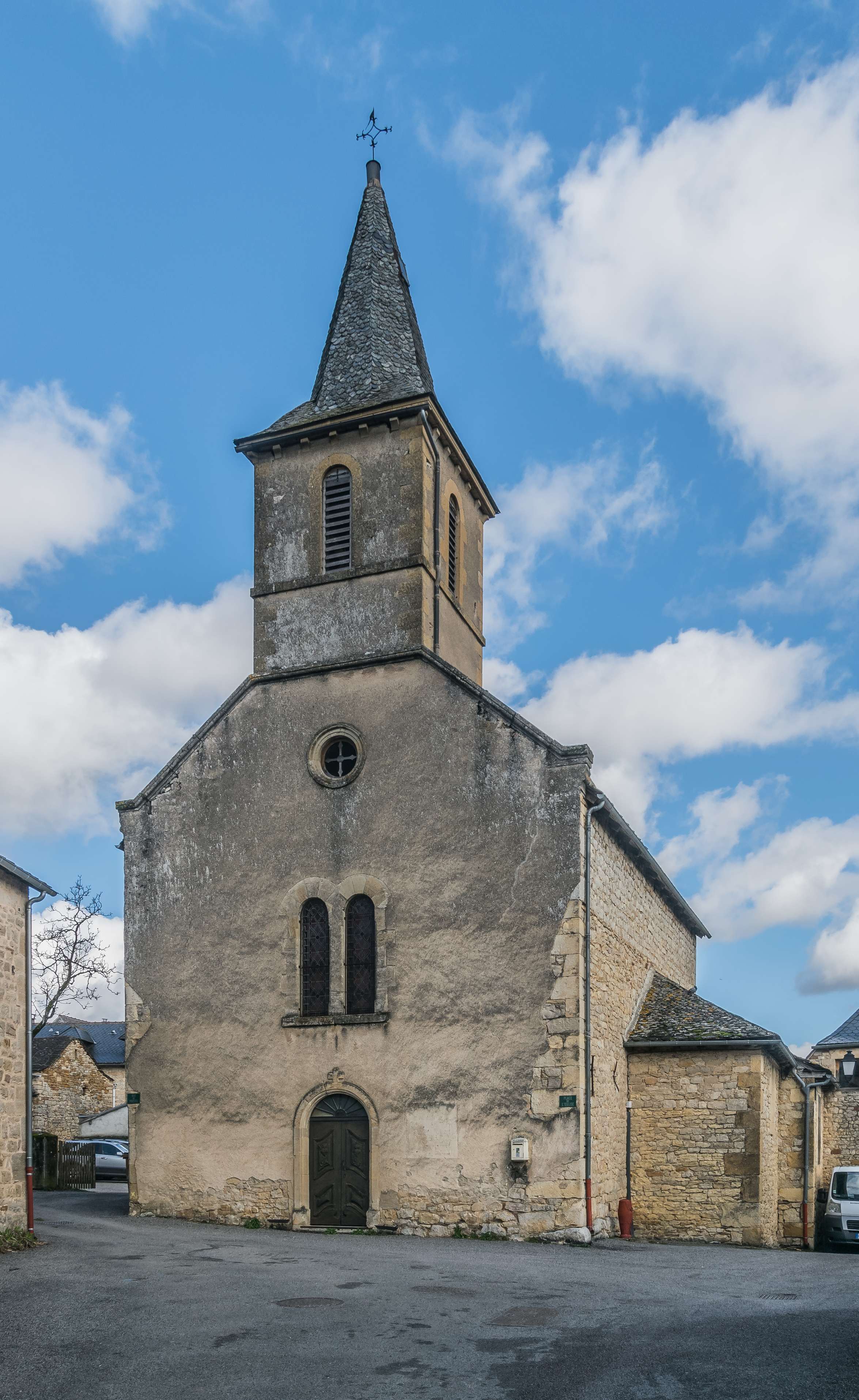 Church in Fijaguet, commune of Valady, Aveyron, France